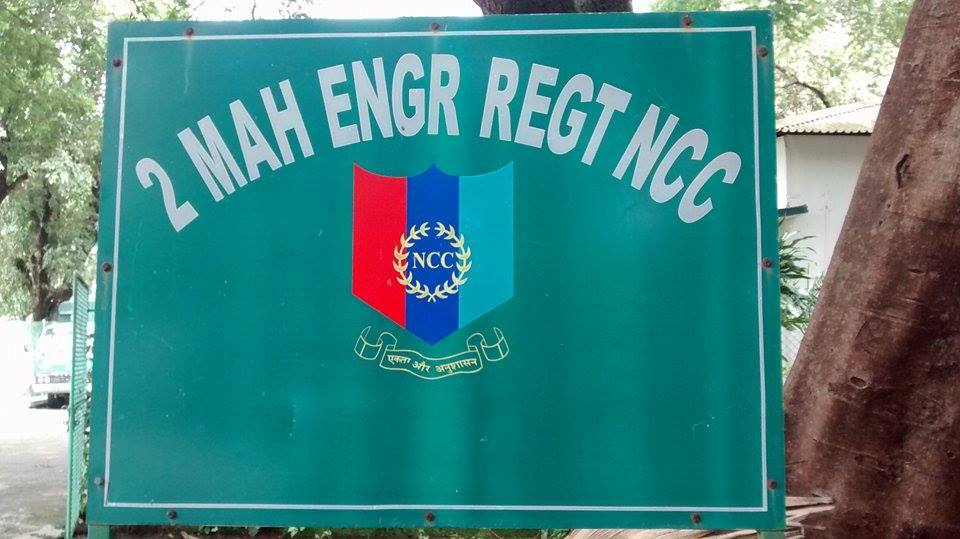 2 Maharashtra Engineer Regiment NCC